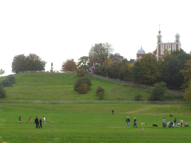 Greenwich Observatory from the Maritime Museum.